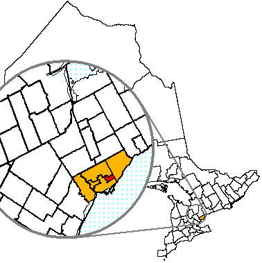 East York (red), a former municipality within Toronto (orange) Modified from original Image:Toronto_Scarborough_location.png.